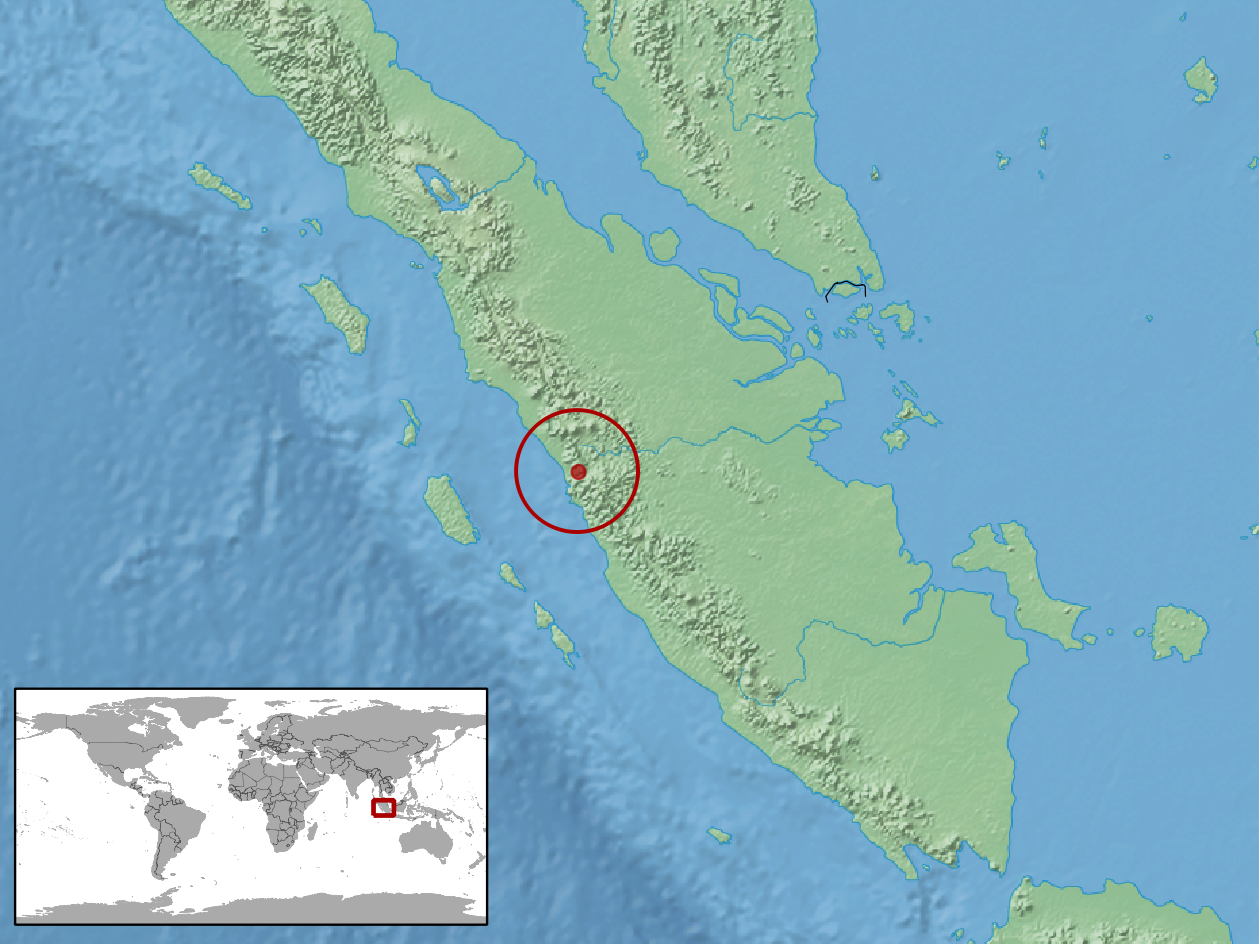 geographic distribution of Calamaria eiselti (Native: Indonesia (Sumatera))